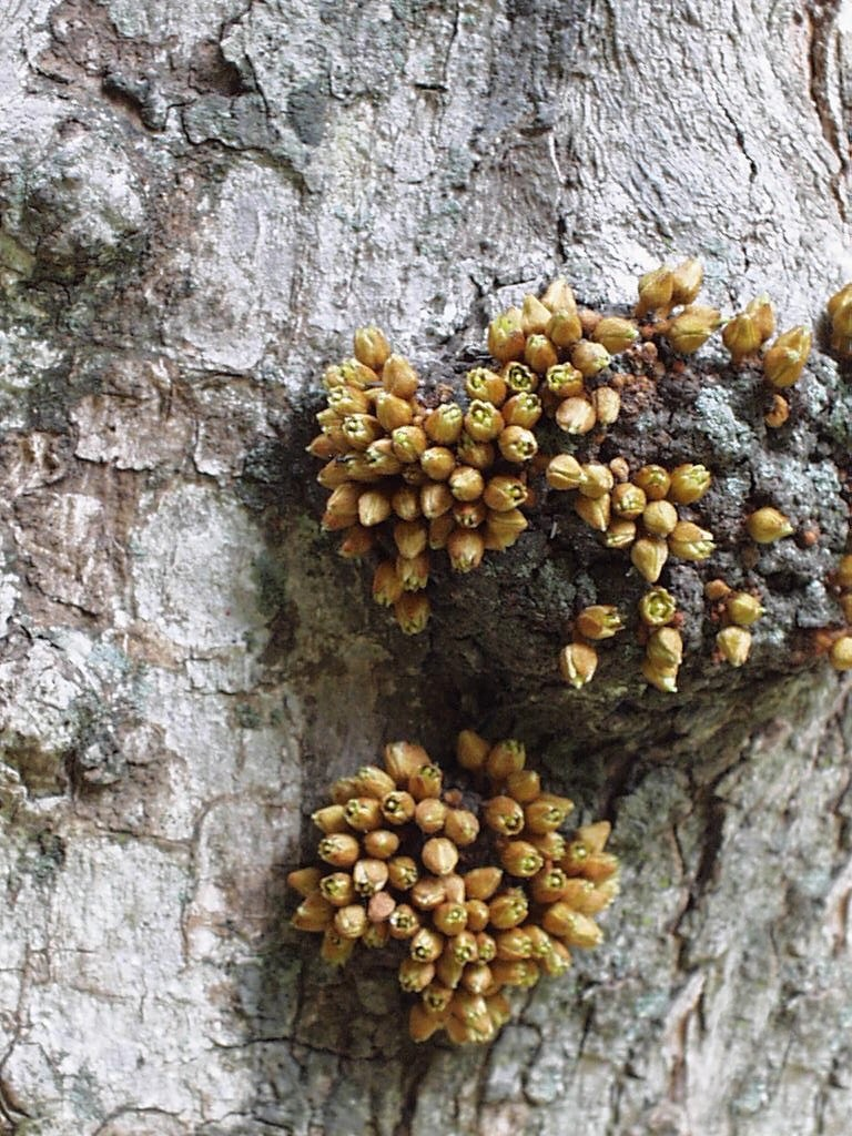 Englerophytum magalismontanum Transvaal milkplum flowers on trunk